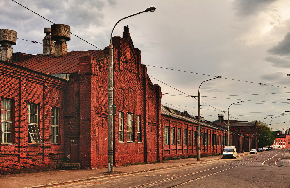 Views of Minsk, Belarus